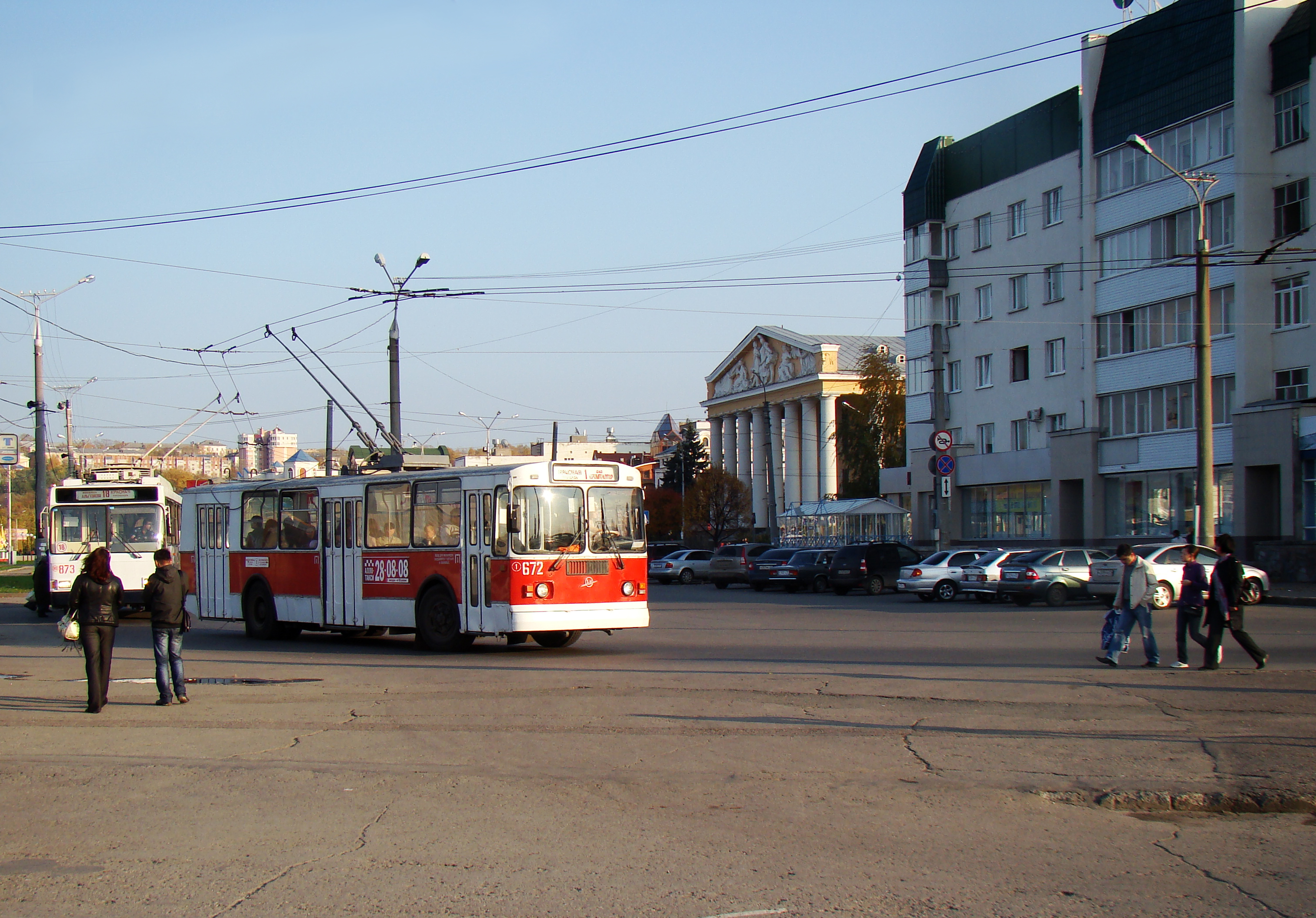 Trolleybuses on Red Square, Cheboksary , Russia